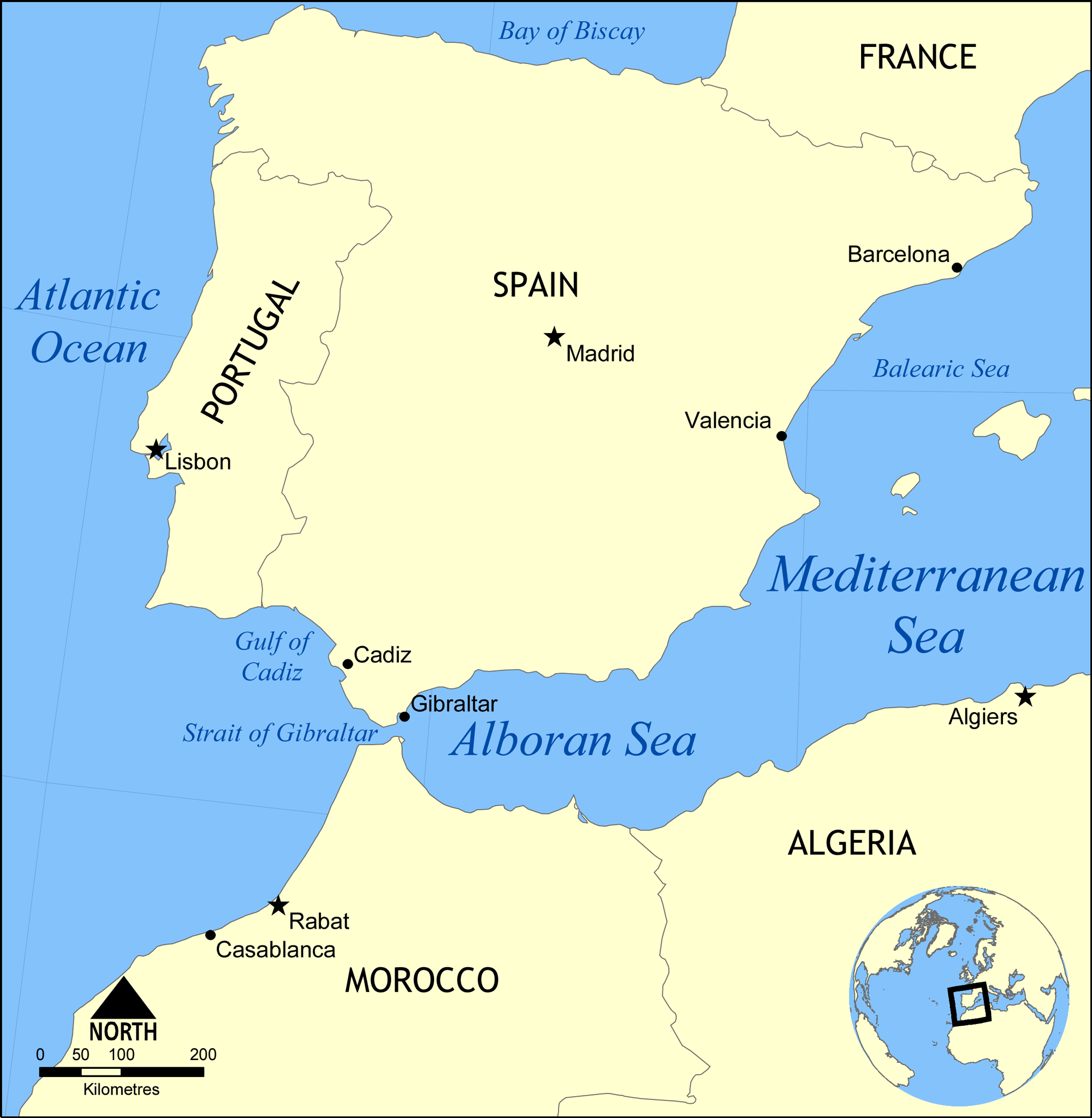 Map showing the location of the Alboran Sea, a part of the Mediterranean Sea, between Spain and Morocco.